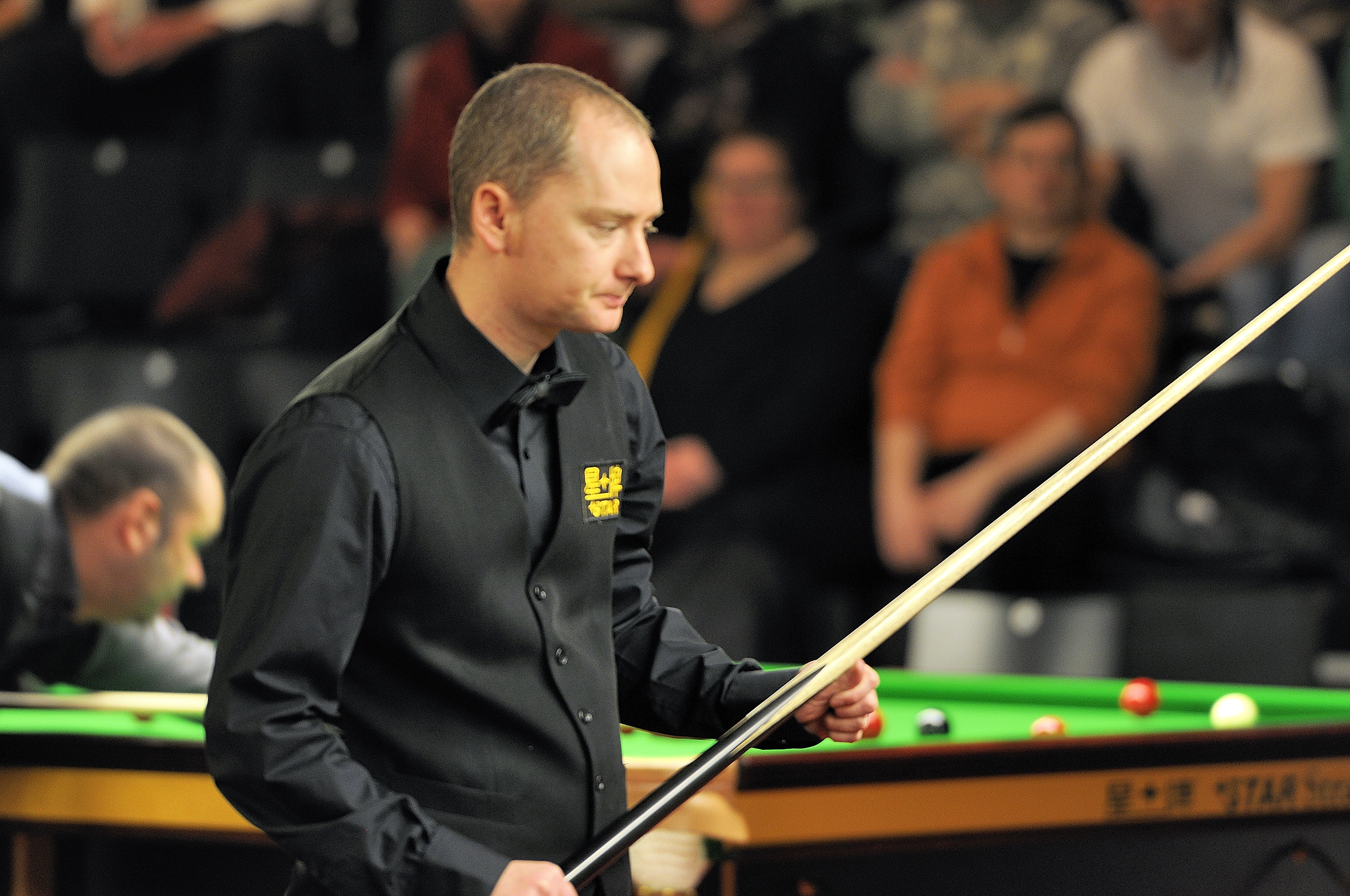 Picture taken in Berlin during the Snooker German Masters in 2014. Graeme Dott.